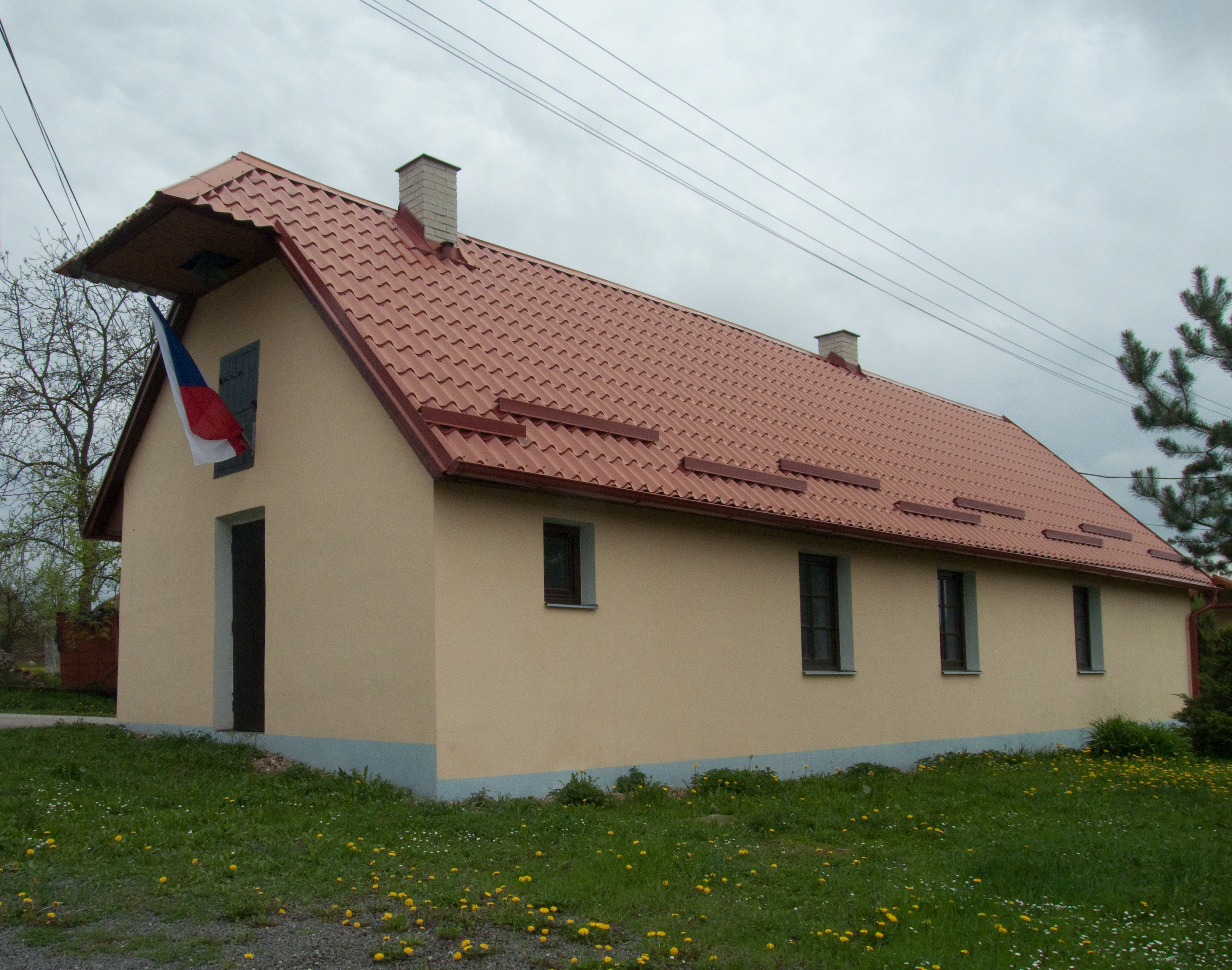 Municipal authority building in the village of Košín, Tábor district, Czech Republic